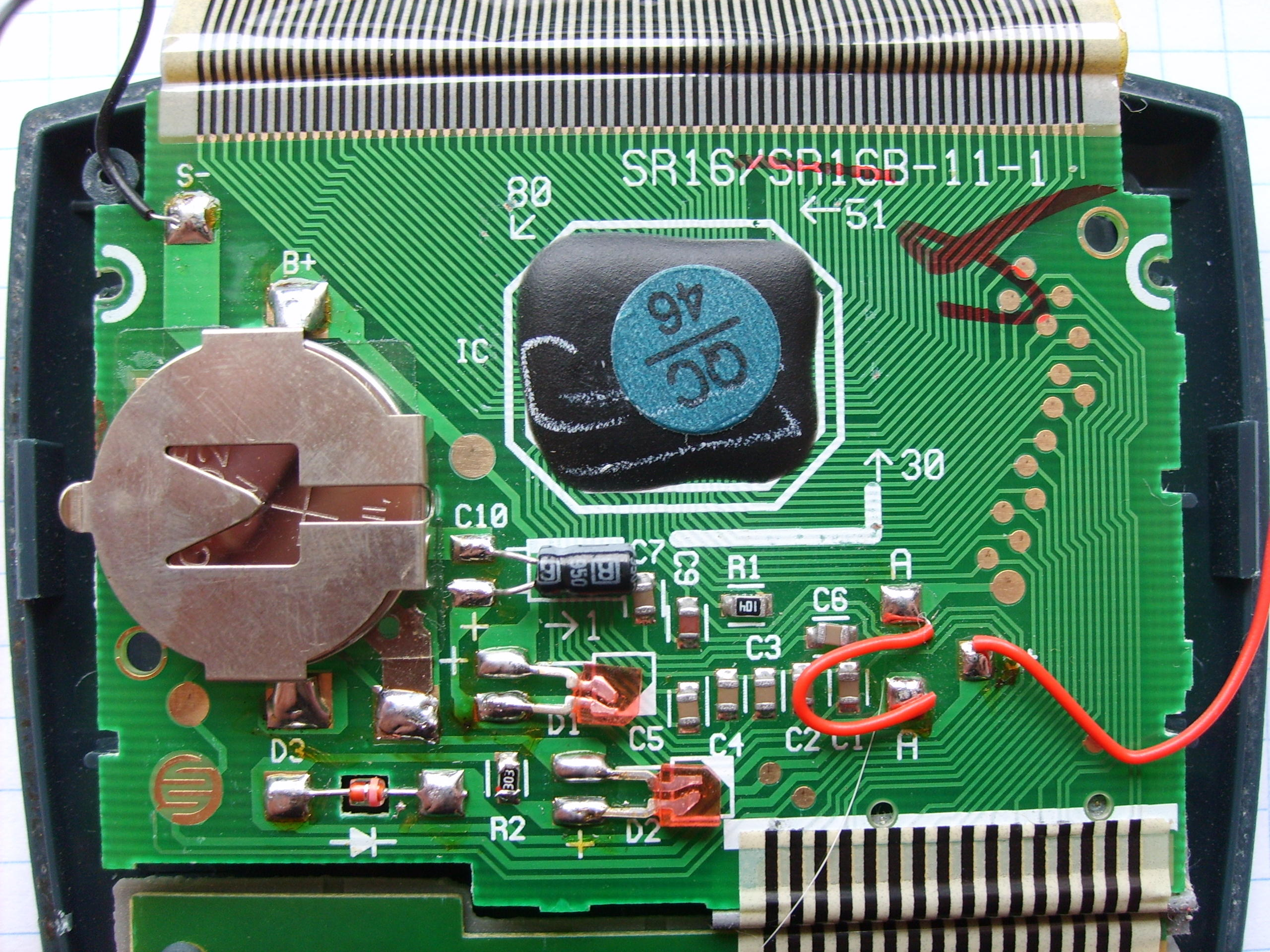 A circuit board of a Texas Instruments calculator, a TI-30X IIS.